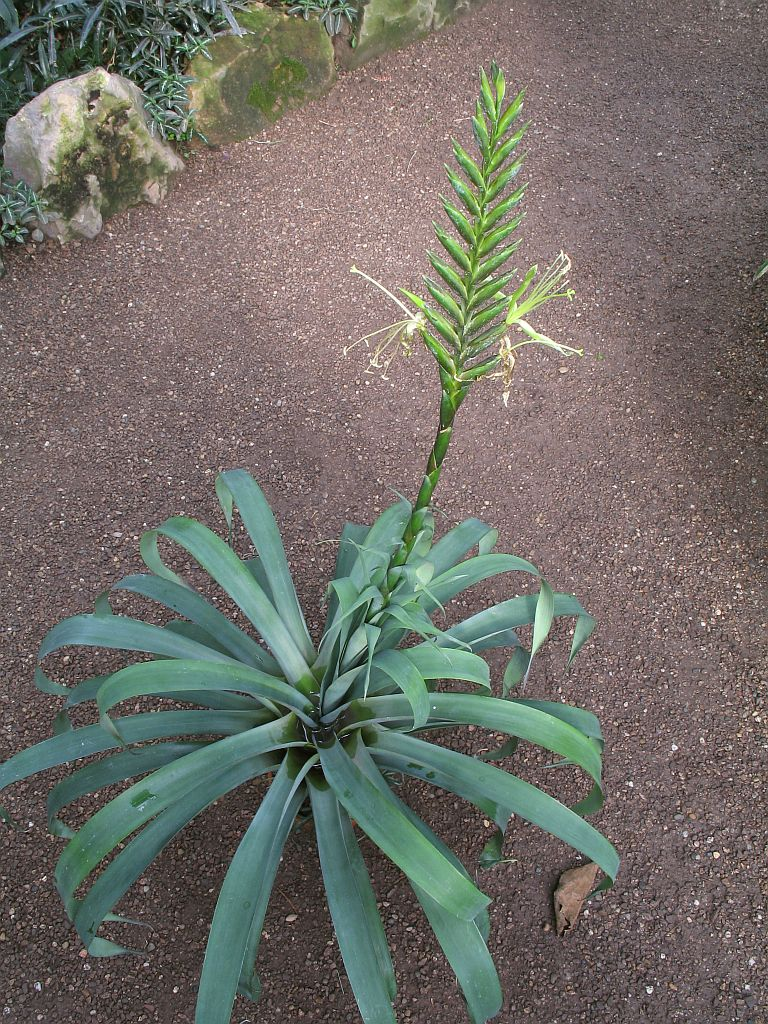 Tillandsia viridiflora in cultivation at the Botanical Garden of Heidelberg, Germany.